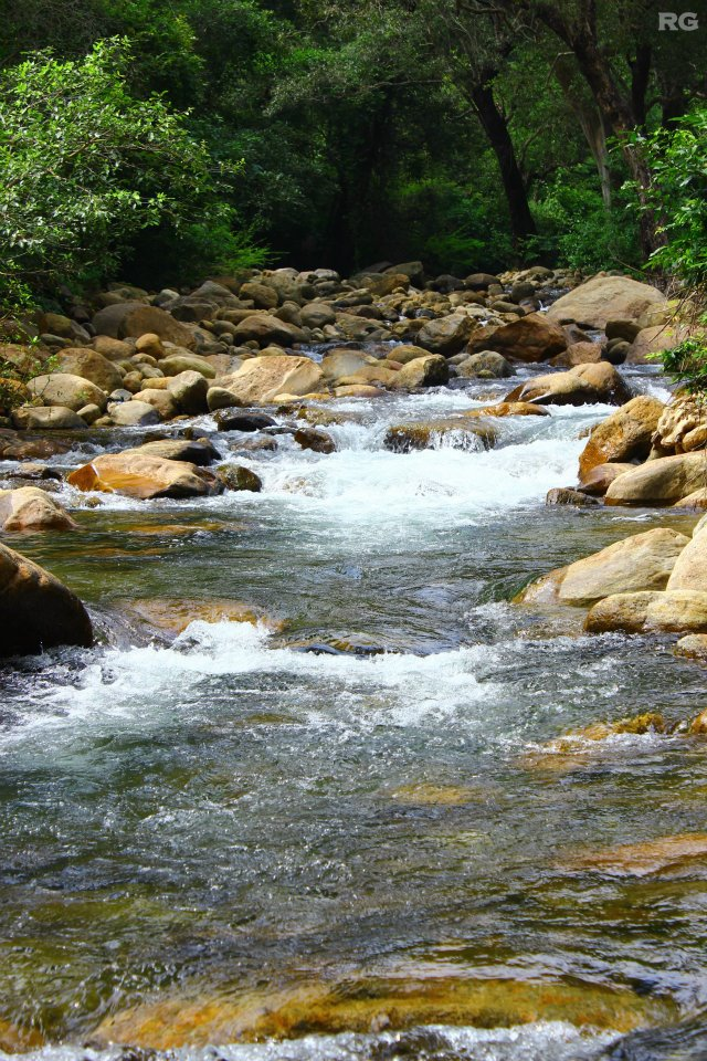 Ayyanar Falls